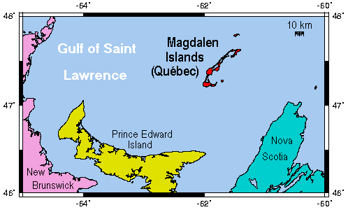 Locator map showing Magdalen Islands' location.